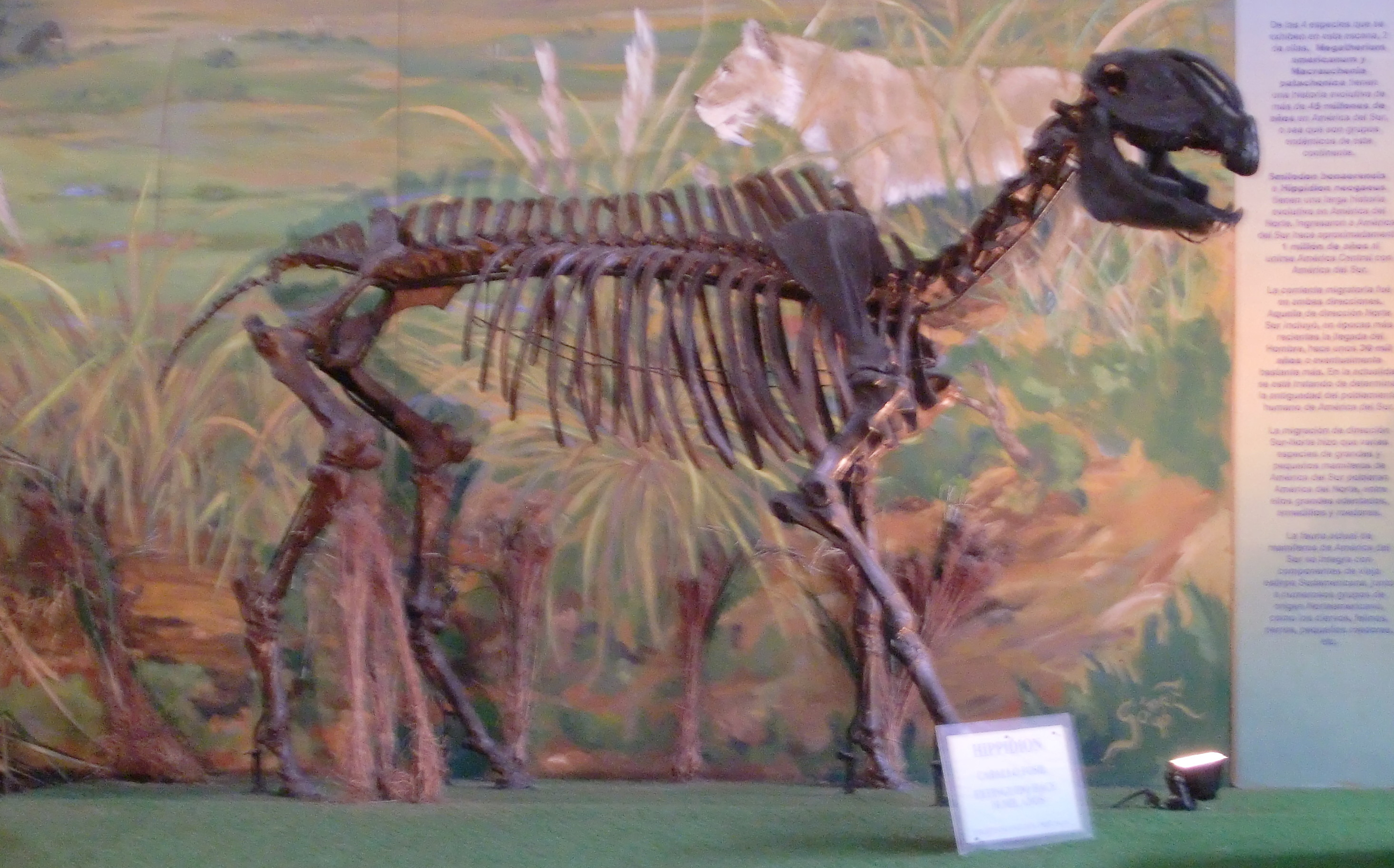 Hippidion skeleton on display at Bernardino Rivadavia Natural Sciences Museum with thanks to the museum for allowing photography